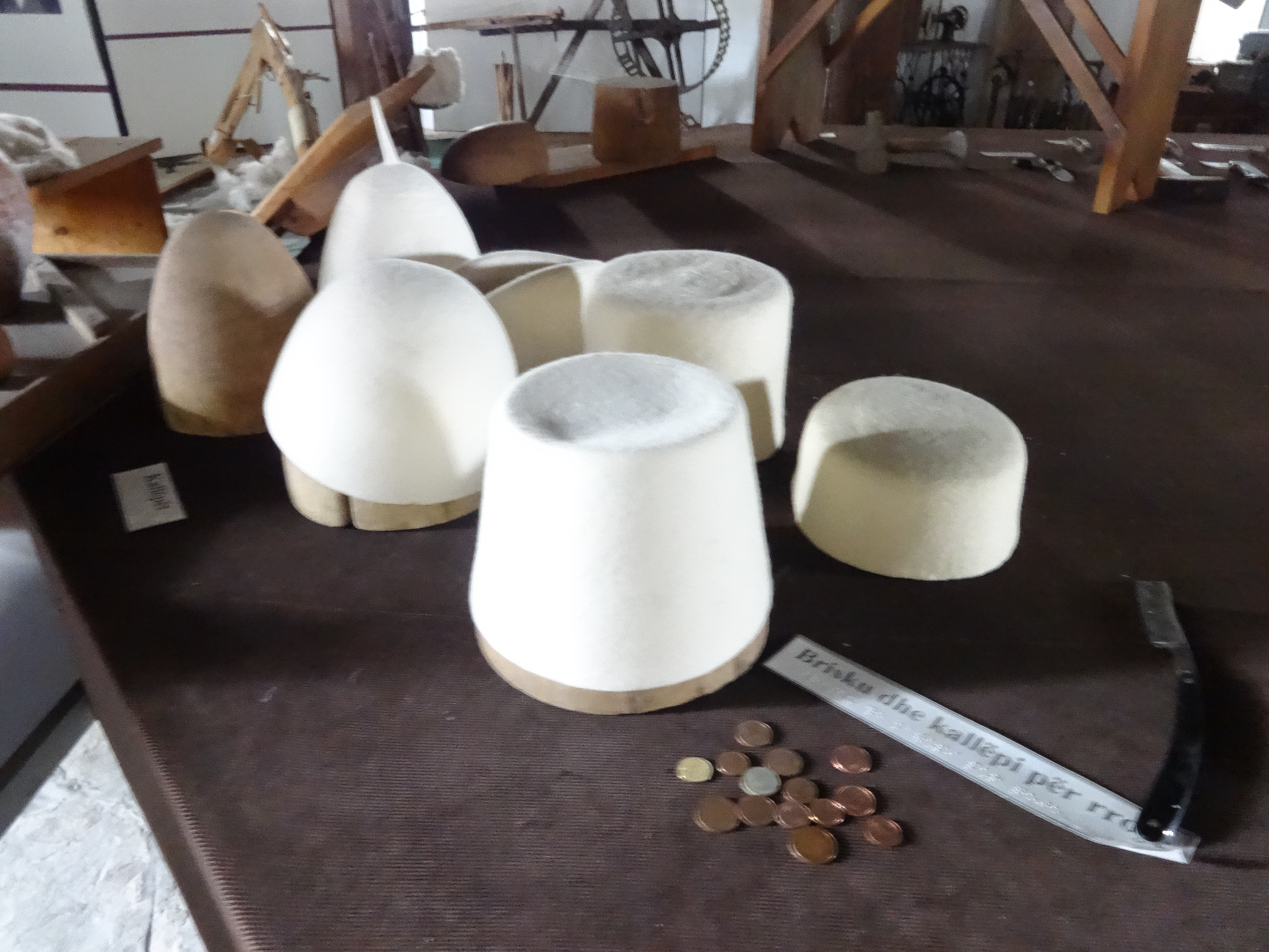 Many people may refer to it as a hat, but not Albanians. This is a unique kind of hat, it represents Albanians."Plis" is what this type of hat is called. Every region of not only Kosovo, but other parts of Ethnic Albania too have a different type of "Plis" which represents them.